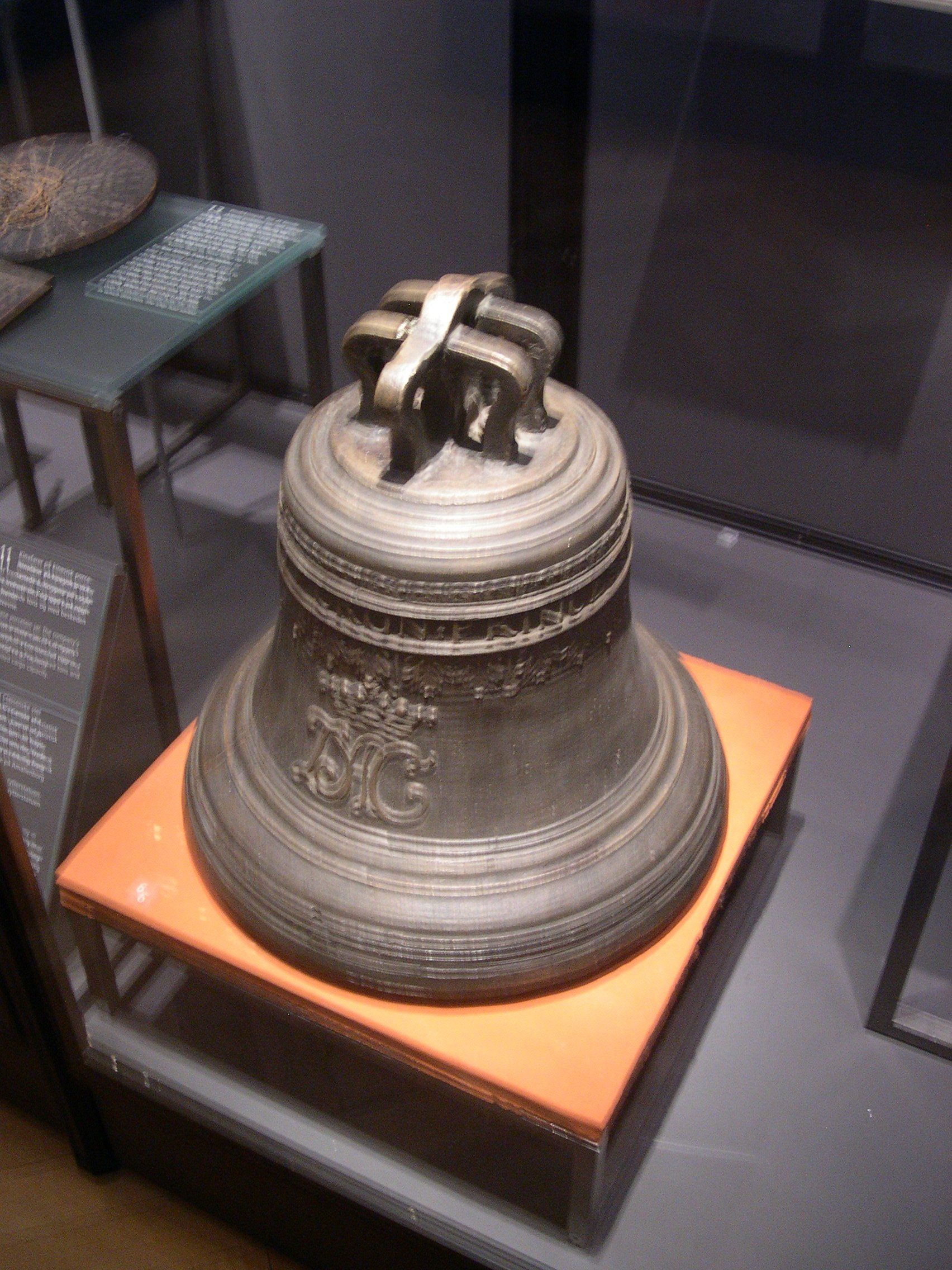 Ship bell of the Crown Princess of Denmark